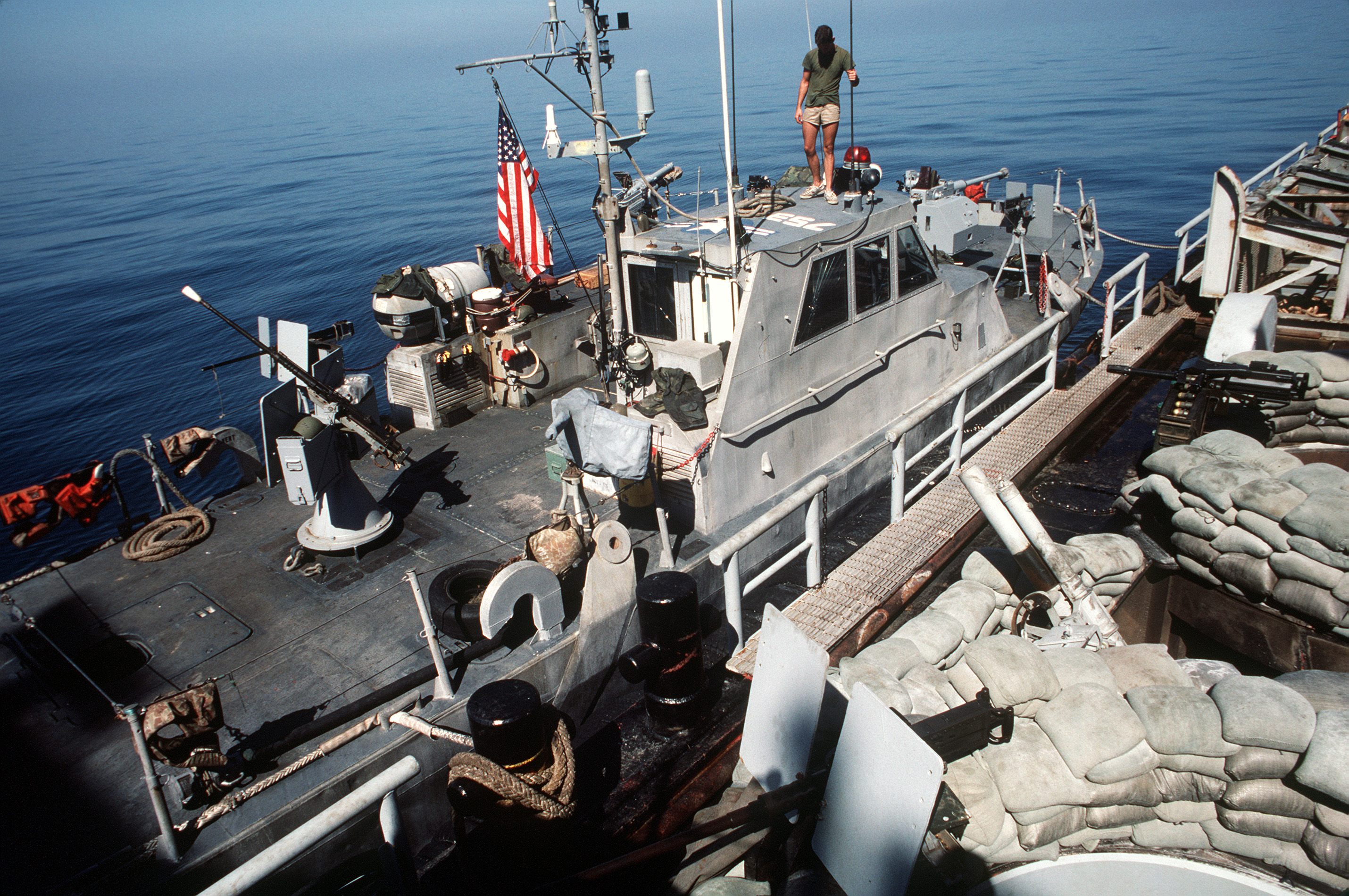 A U.S. Navy crewman stands atop the cabin of a PB Mark III patrol boat tied up to the barge Wimbrown 7 during a pause in operations. The barge is heavily armed, carrying, from lower to upper right, an M-2 .50-caliber machine gun, a Mark 2 81mm mortar, and a Mark 19 40mm grenade-launcher. The patrol boat and barge are among the Navy assets being used to provide security for U.S.-flagged shipping in the Persian Gulf.